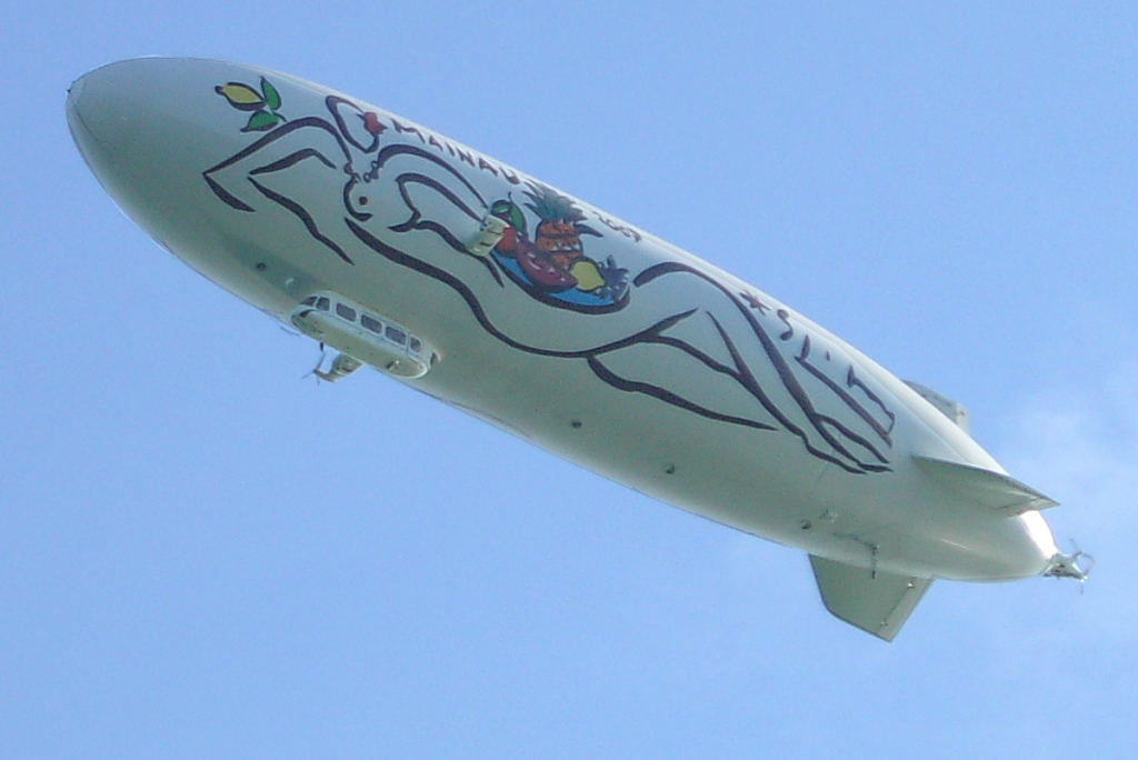 Zeppelin NT flying over the lake. for information and tickets ;)